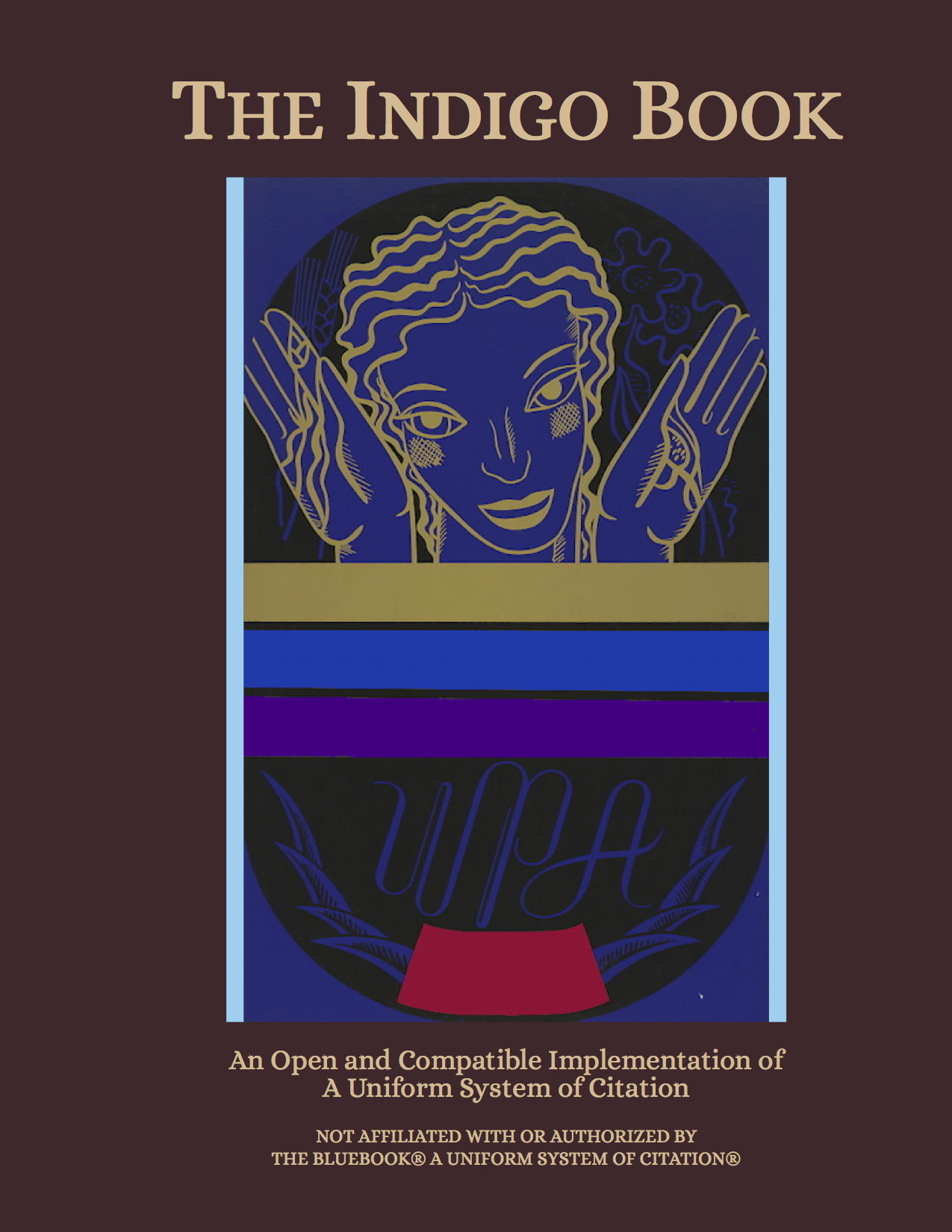 Cover of The Indigo Book